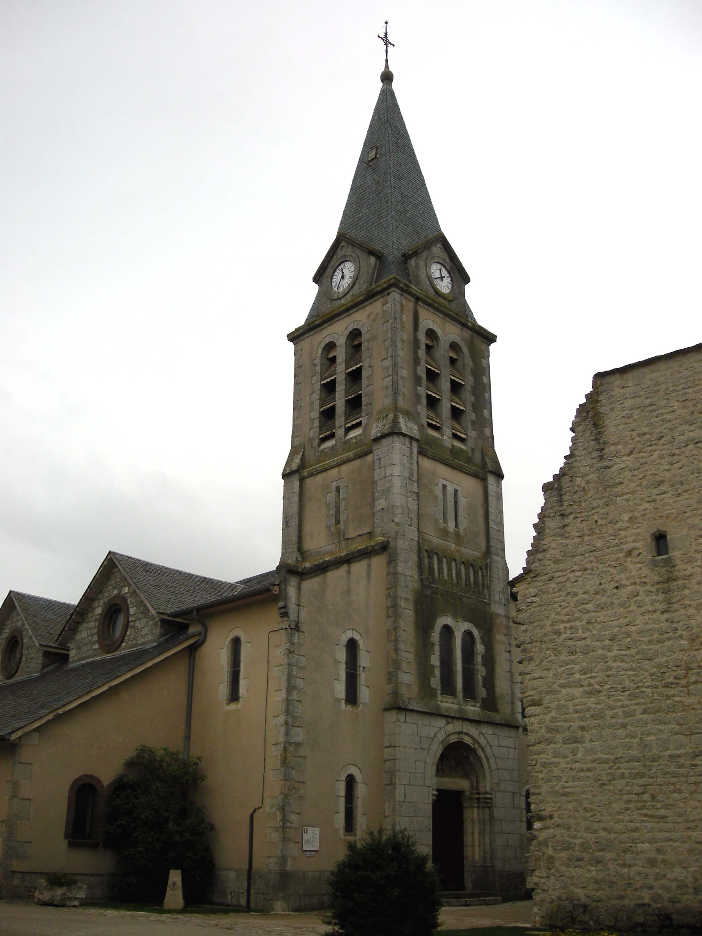 Church of La Cavalerie (Aveyron)